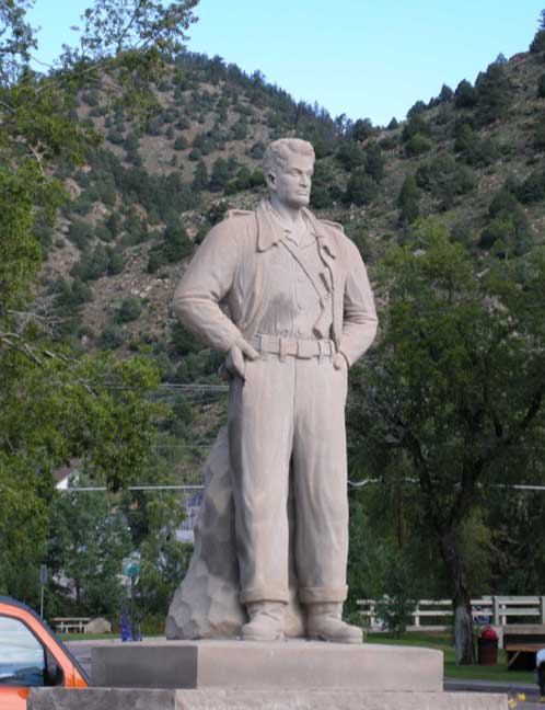 Statue of cartoon character Steve Canyon, in Idaho Springs, Colorado, USA